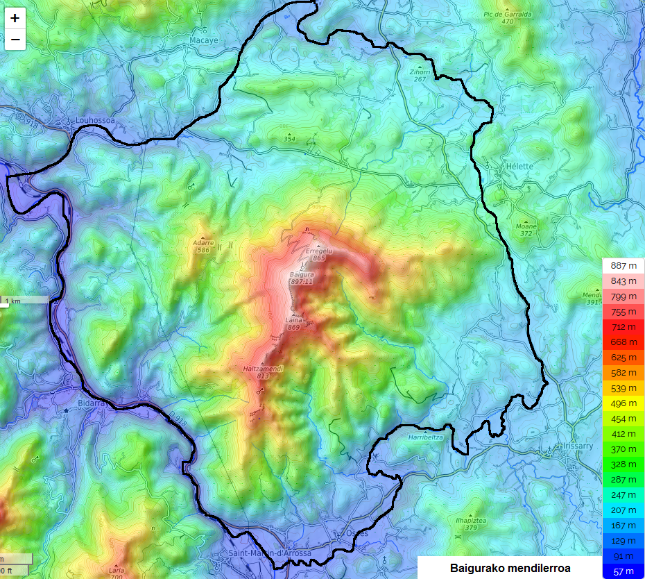 Topographic map showing the Baigura Range.